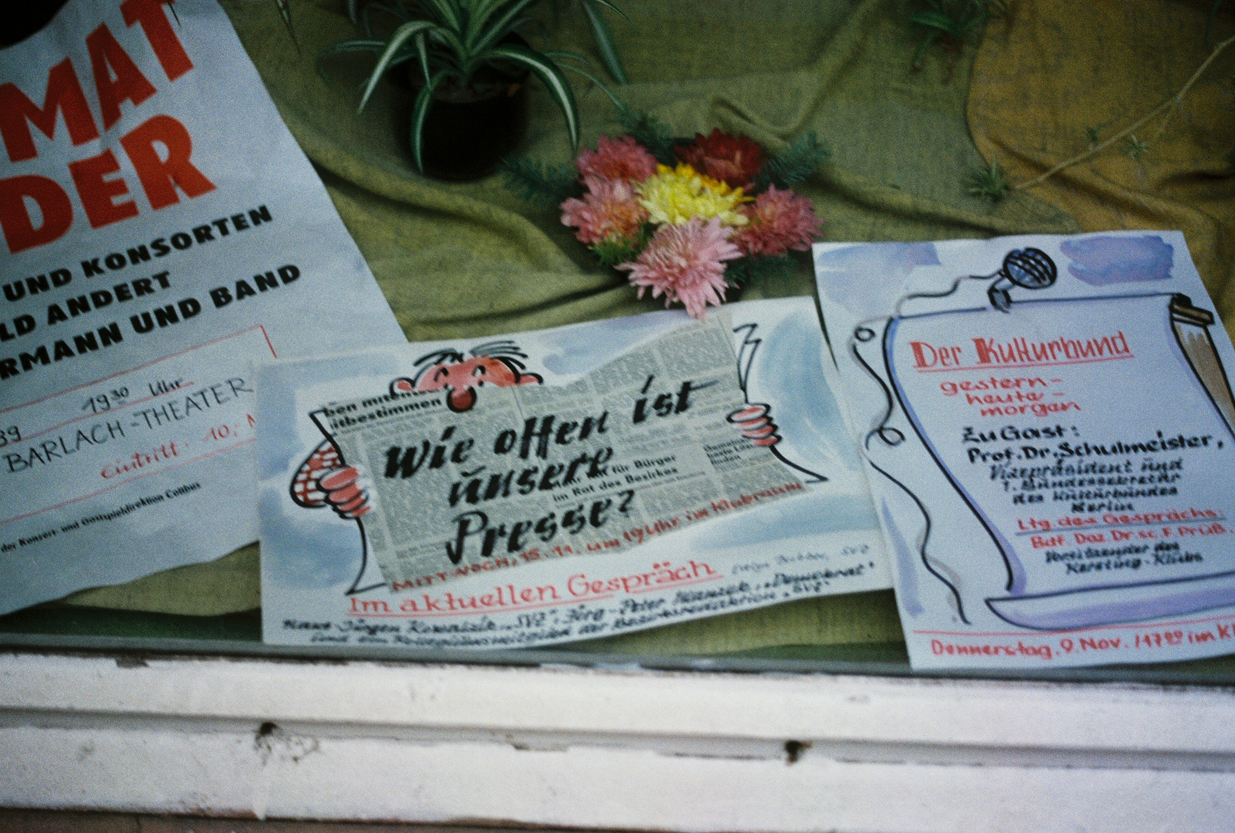 shop window of the Kulturbund in Güstrow, November 1, 1989